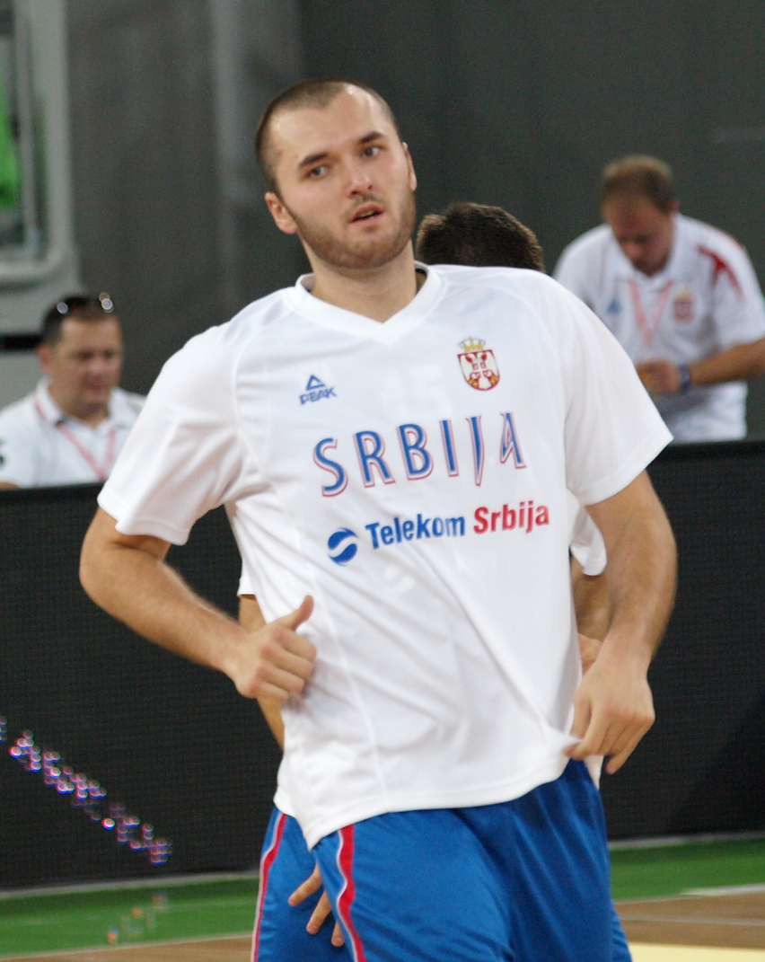 Milan Mačvan, final of Adecco cup 2011.